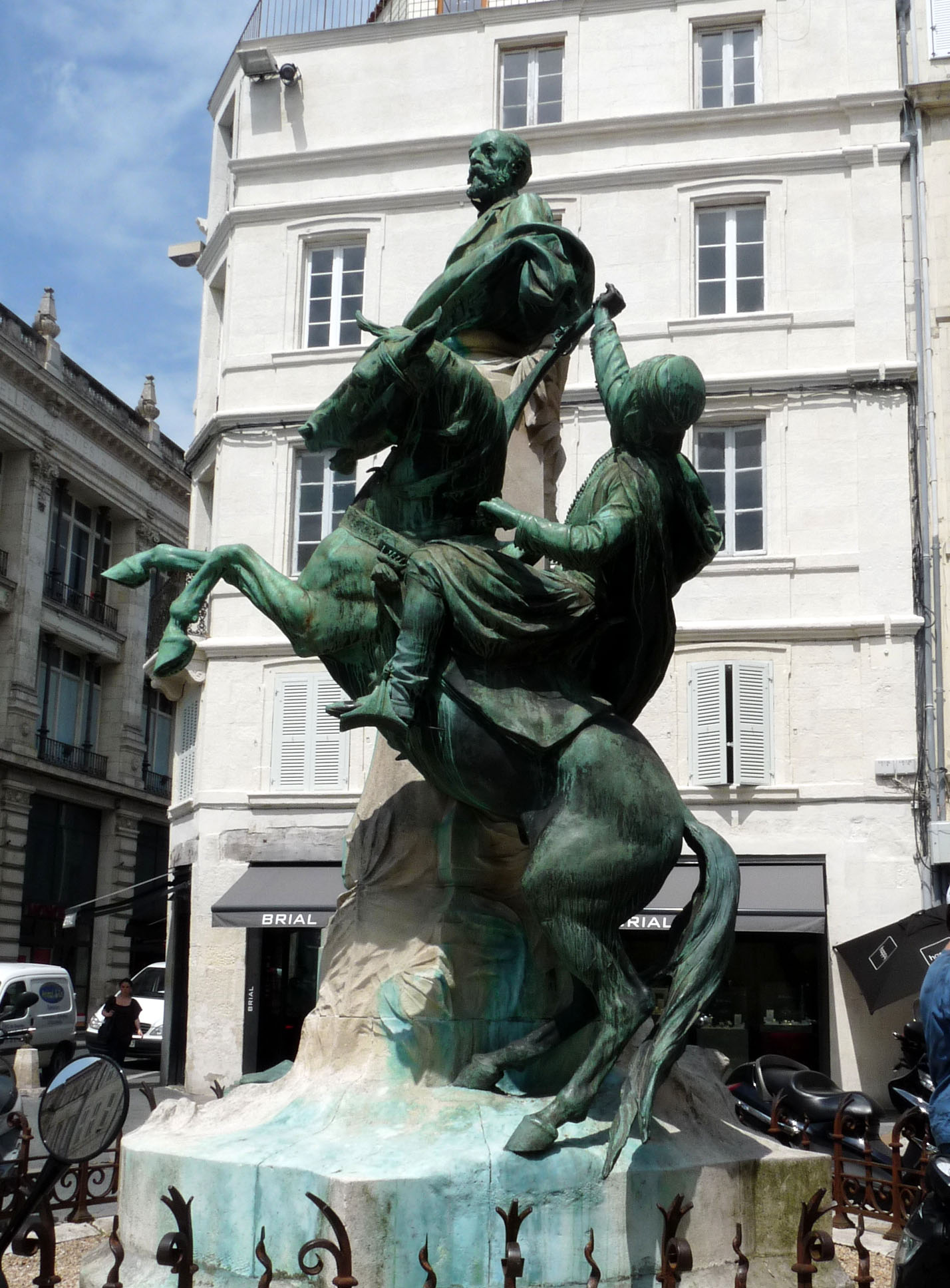 Eugène Fromentin monument in La Rochelle